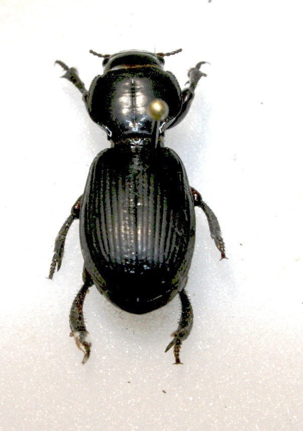 Brullea antarctica, a burrowing beetle from the supralittoral zone of New Zealand beaches